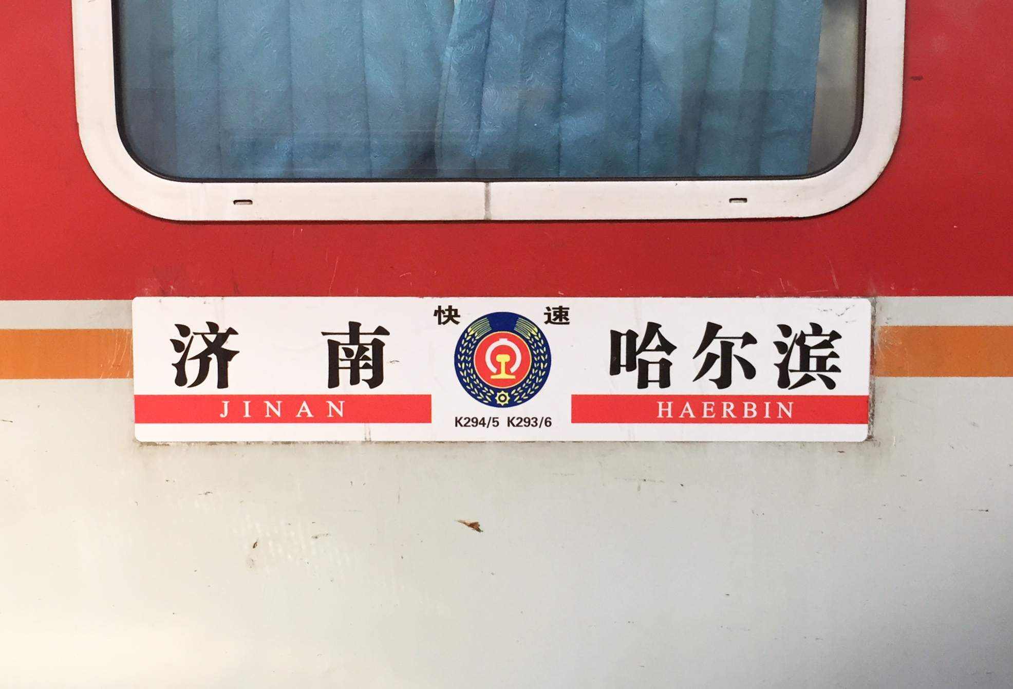 I spotted this "2nd Dirty" on Platform 3 of Tianjin Railway Station.